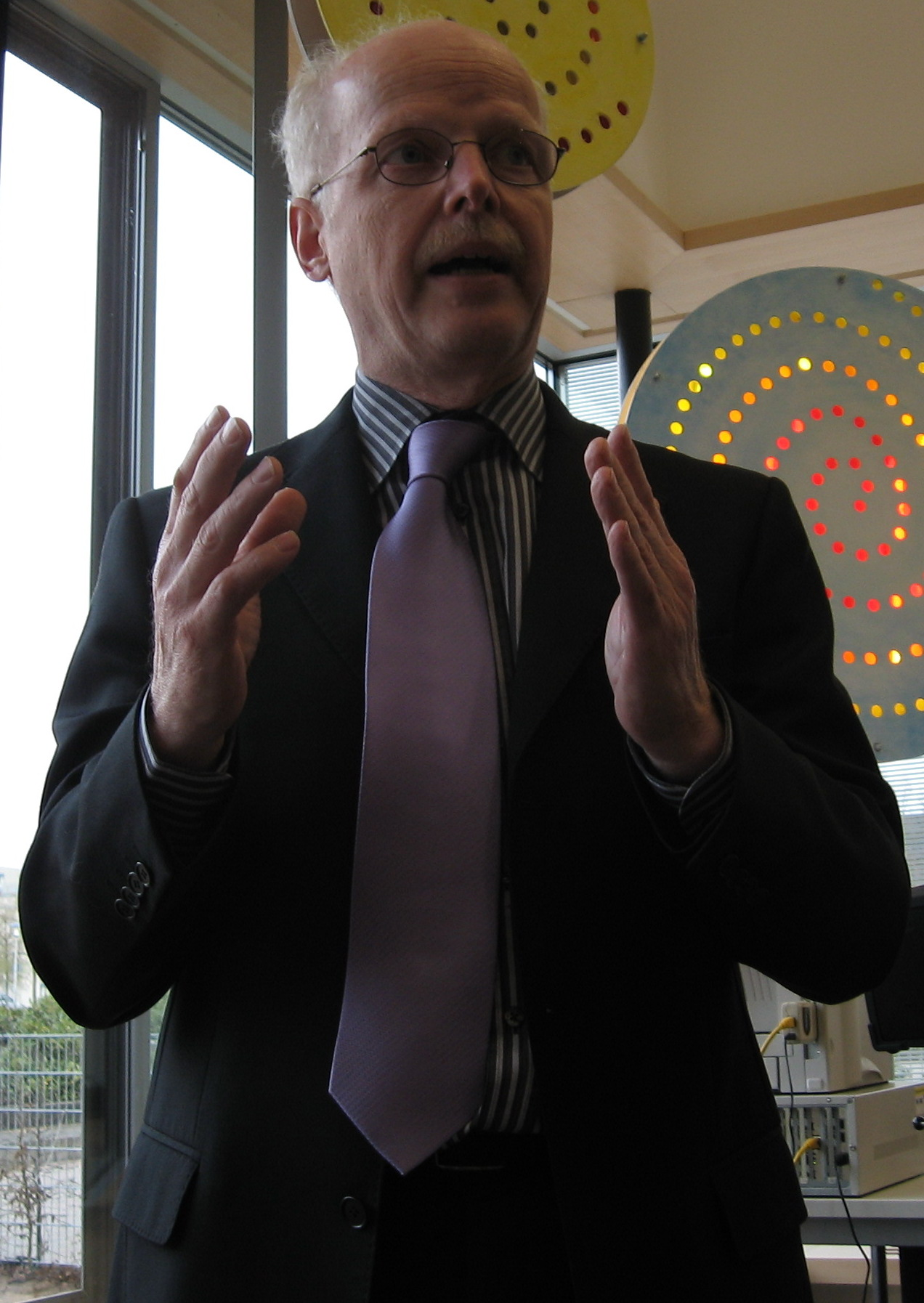 This shows professor Christian Kirchberg